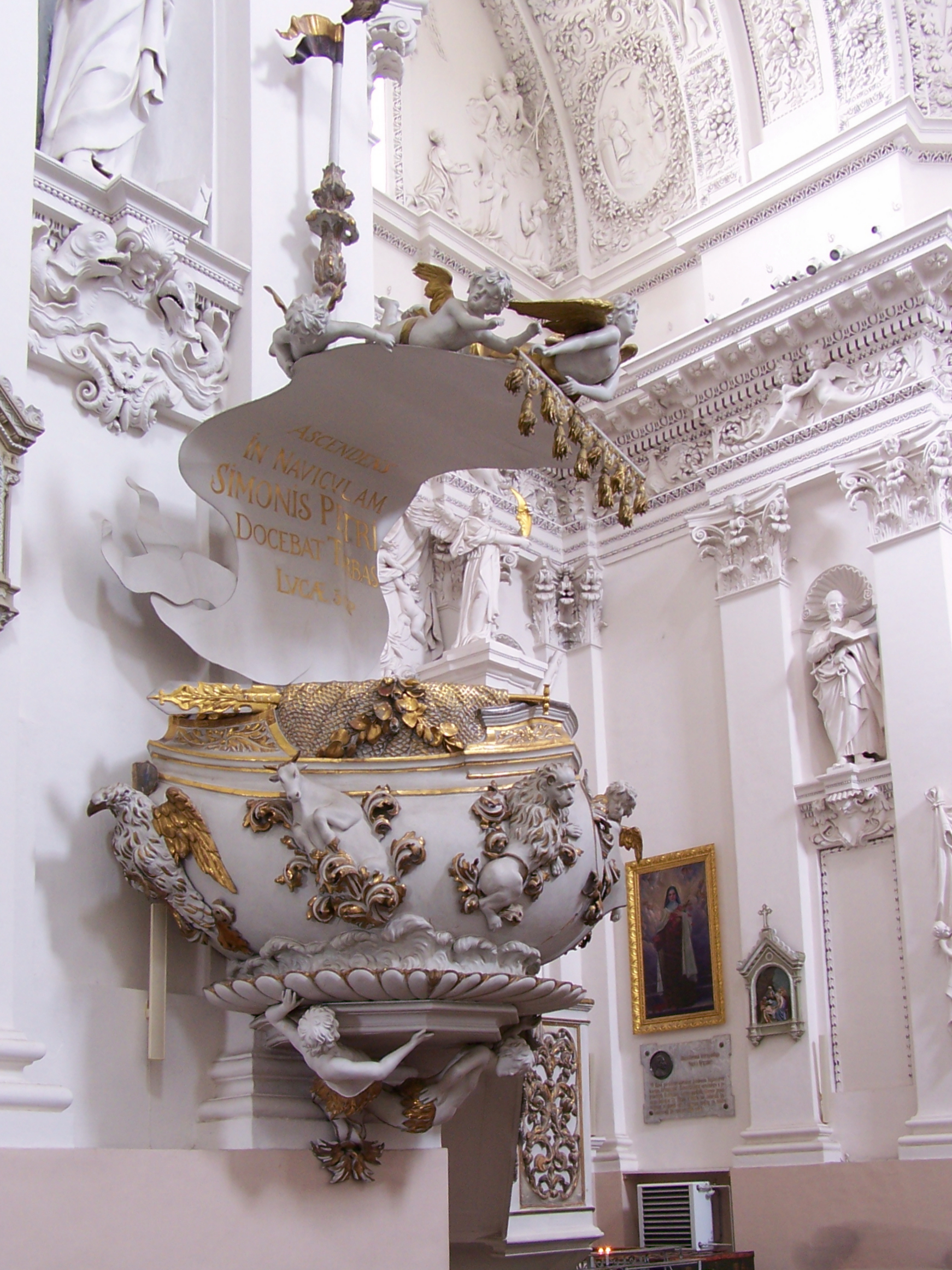 Pulpit in the church of SS Peter and Paul, Vilnius